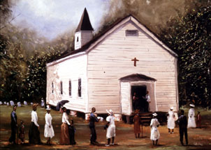 Sunday Worship, 30x40, original,1997(most popular) Art of Ted Ellis